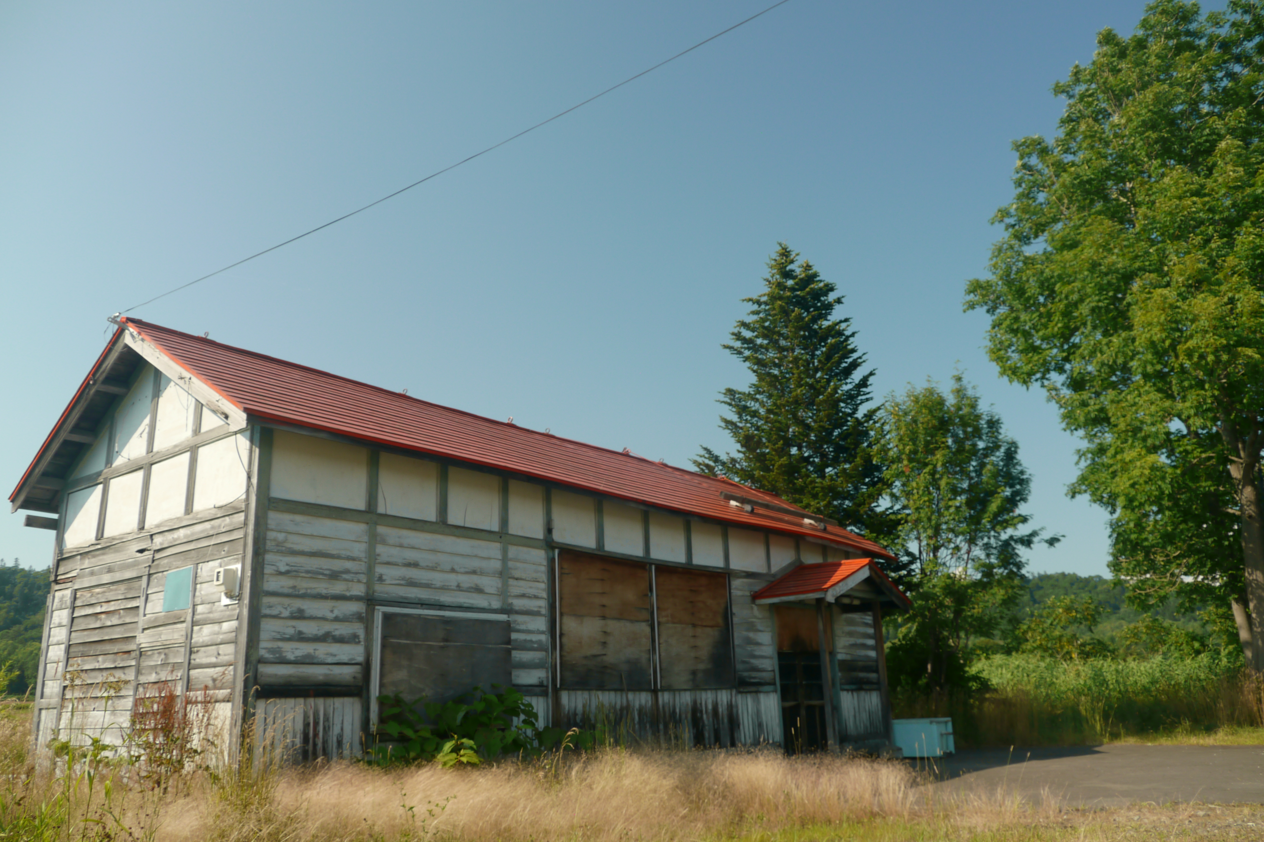 The remains of Soeushinai Station of the Shinmei Line in Hokkaido, Japan